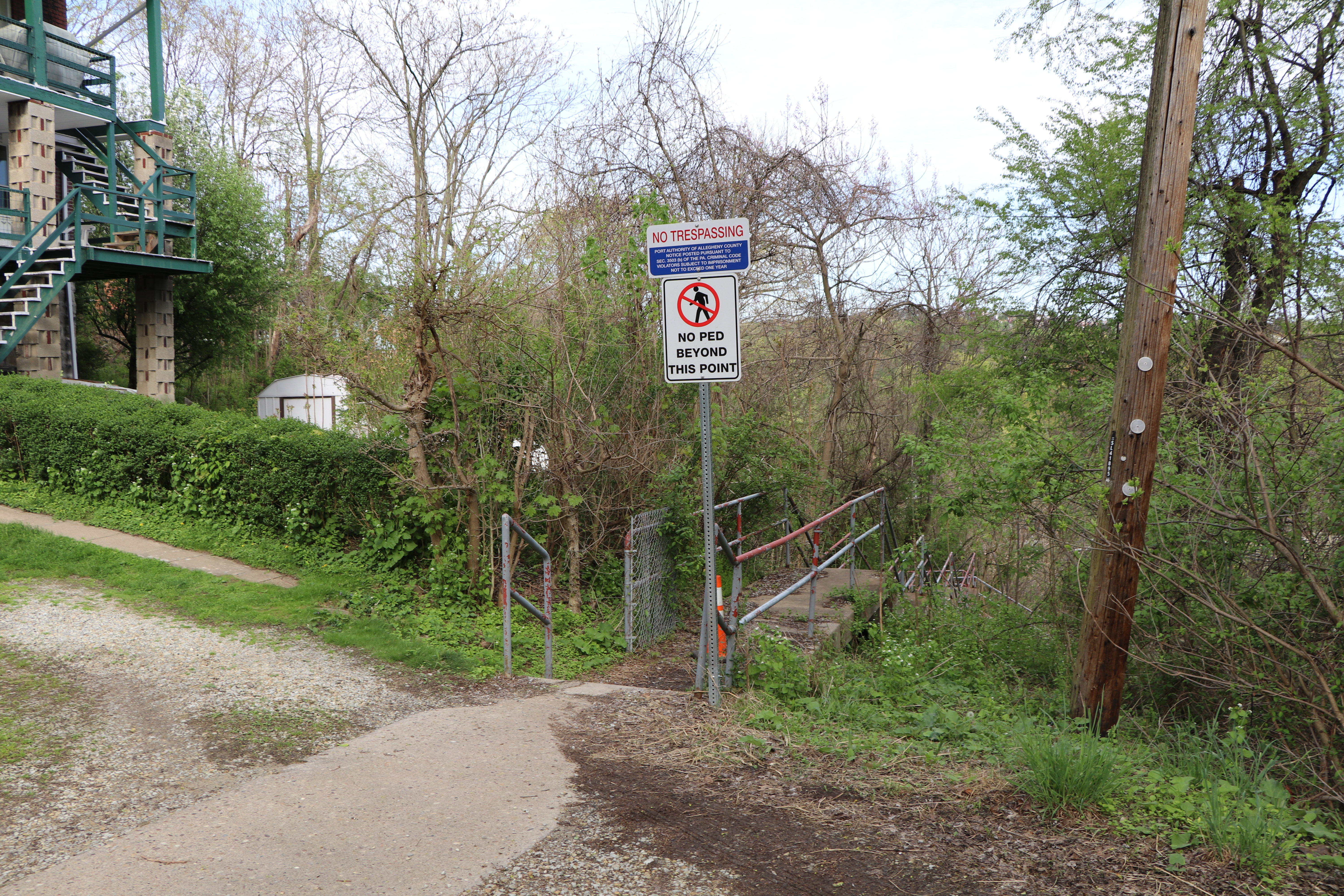 The top of the staircase that used to lead to Traymore station the Red Line, Pittsburgh, PA before it was closed in 2012.